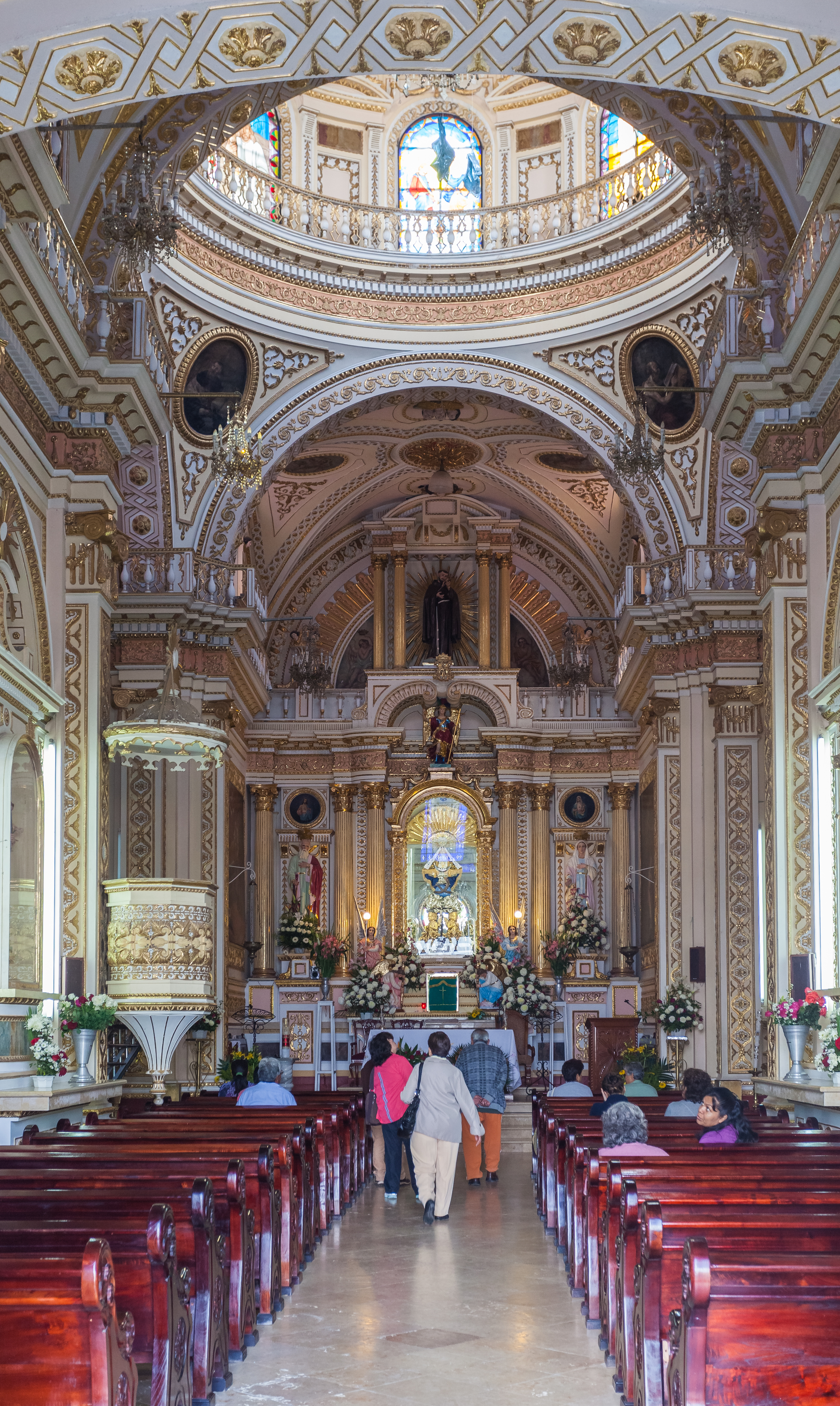 Church Nuestra Señora de los Remedios, Cholula, Mexico